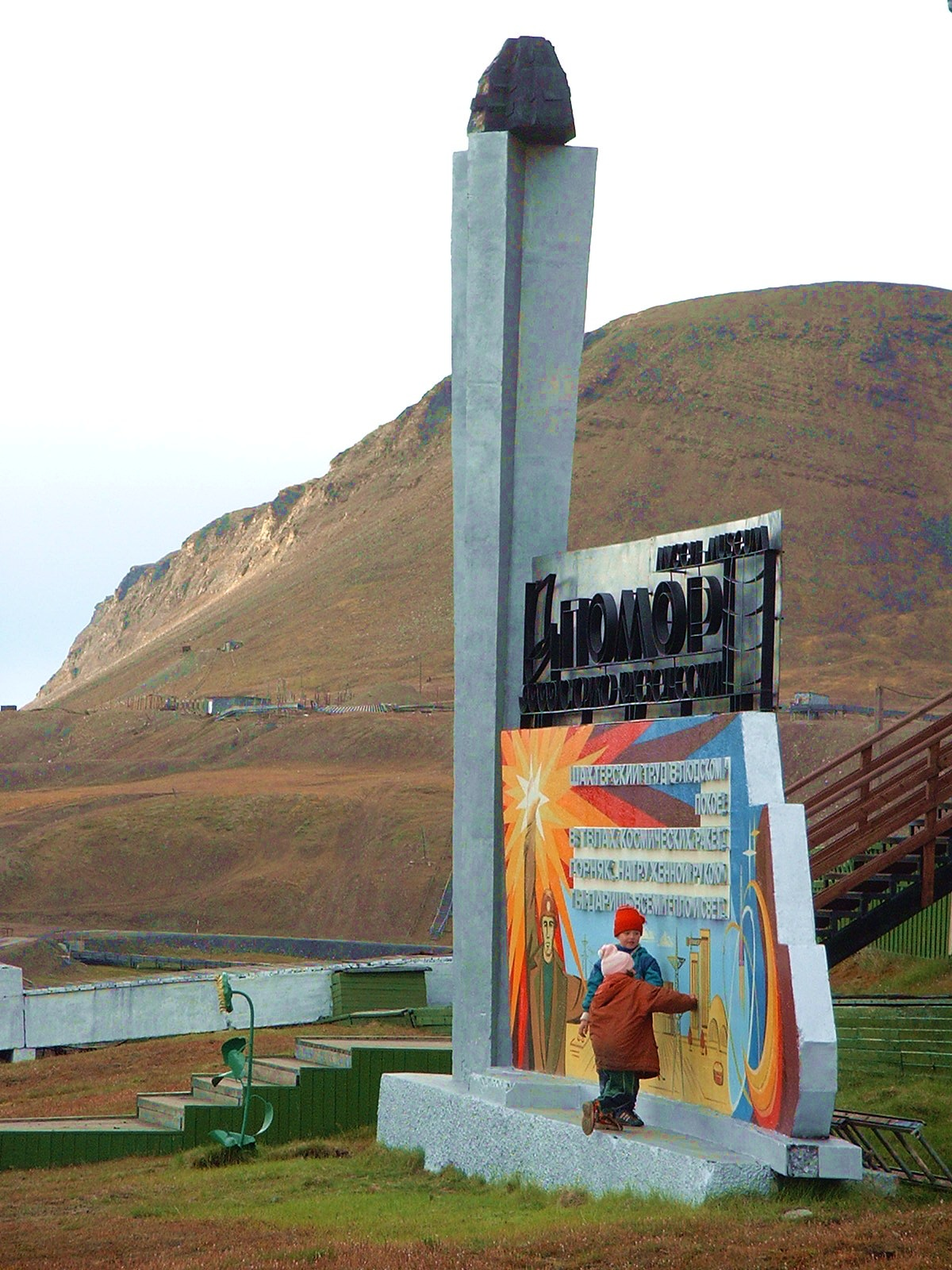 Barentsburg, Svalbard: monument to mining photo by user